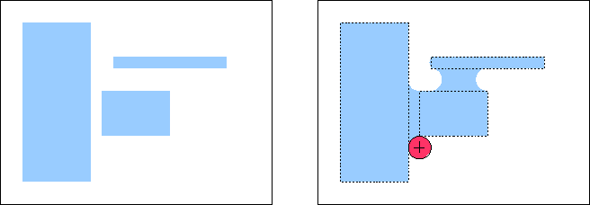 Illustration of morphological closing of binary images.